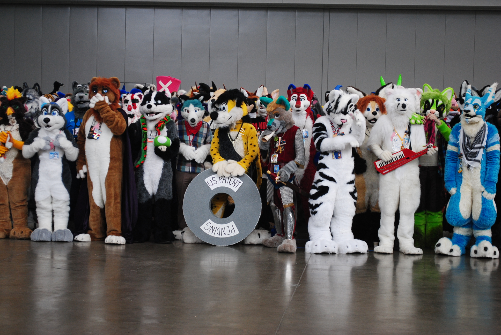 Group of people of furry fandom wearing a fursuit, at Anthrocon 2010.